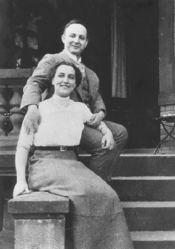 Emil Hilb with his wife Marianne Wolff